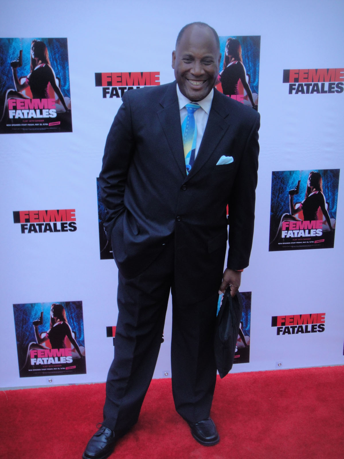 Femme Fatales Red Carpet - Ray Forchion